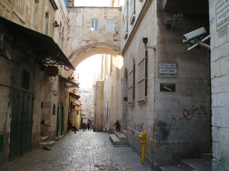 Jerusalem in the 1st century CE Arch of EcceHomo - Via Dolorosa and "ADABAT ER-RAHBAT" St., in hebrew "HA-NEZIROT" St. (street of the nuns)